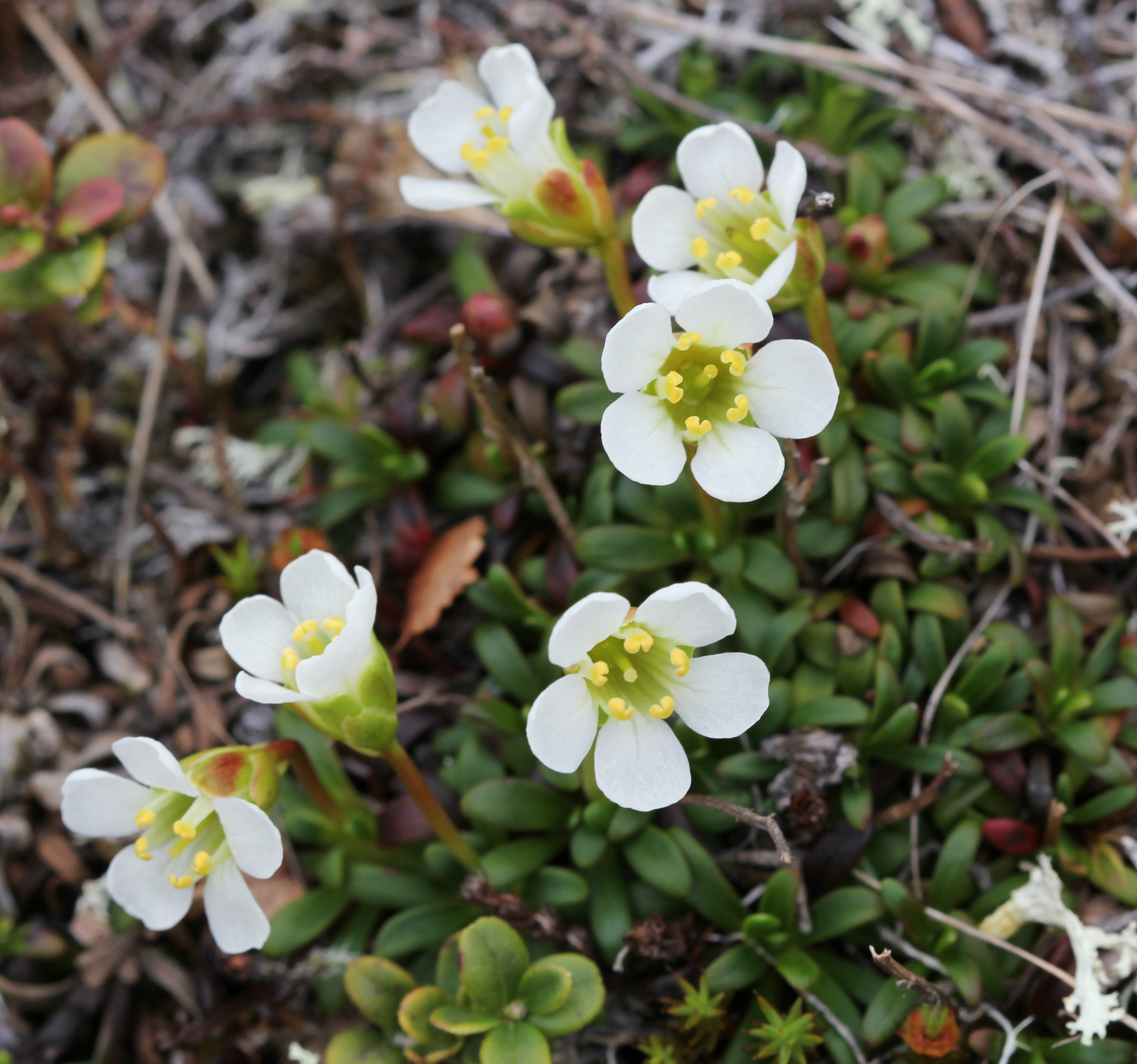 Diapensia lapponica